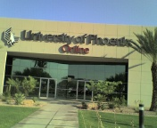 The location of the University of Phoenix Online, Student Technical Support Call Center. Student and Faculty would call this facility to get assistance with any ONLINE support on the school site and best effort support with computer or Internet issues.